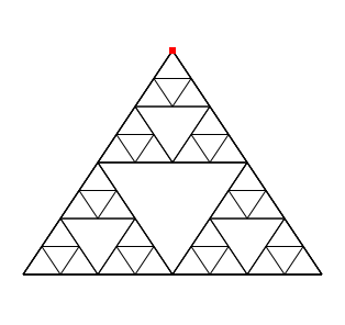 An interactive Sierpinksi triangle computed by Dr. Geo software